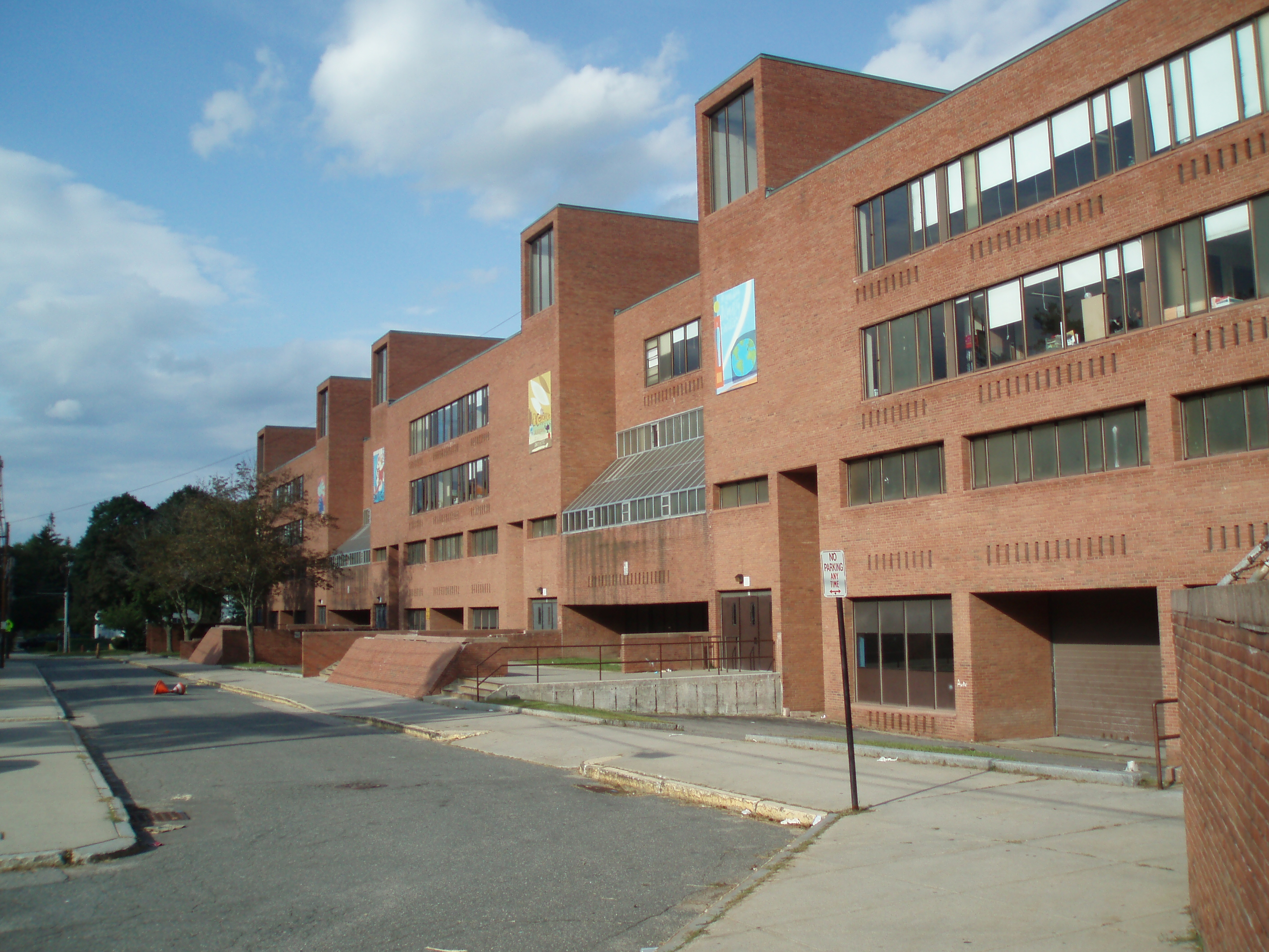 The west facade of the 'old' Newton North High School, from Lowell Avenue.